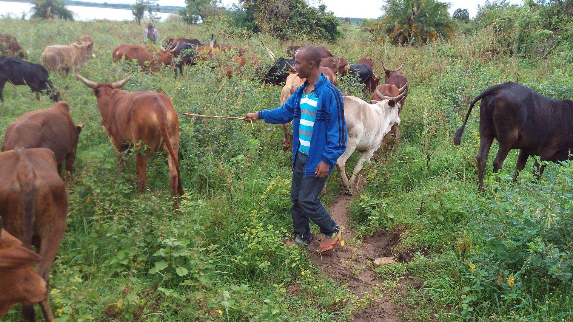 Cattle herding in Kome island, Mwanza Region in Tanzania along lake Victoria This is an image with the theme "Africa on the Move or Transport" from: Tanzania